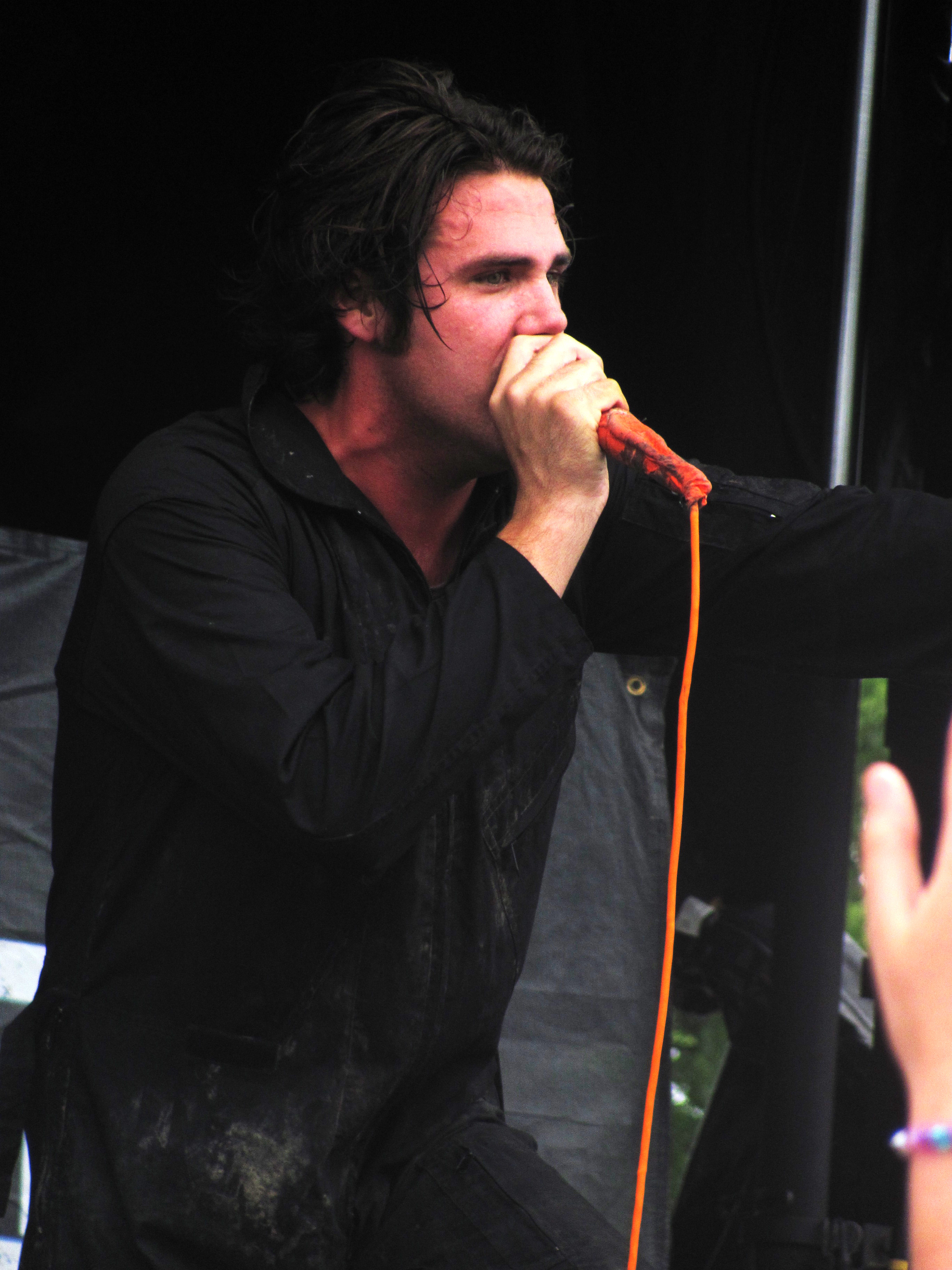 Jason Evigan, the lead vocalist of After Midnight Project, performing during the 2010 Warped Tour.